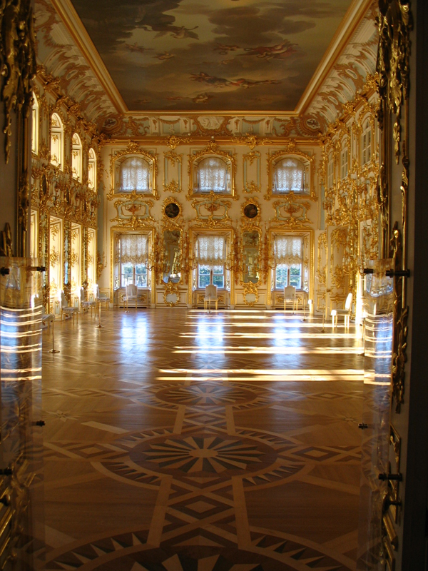 Peterhof Ballroom